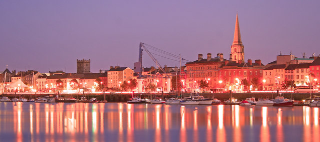 Waterford city at night Image of Waterford city at night taken from across the River Suir